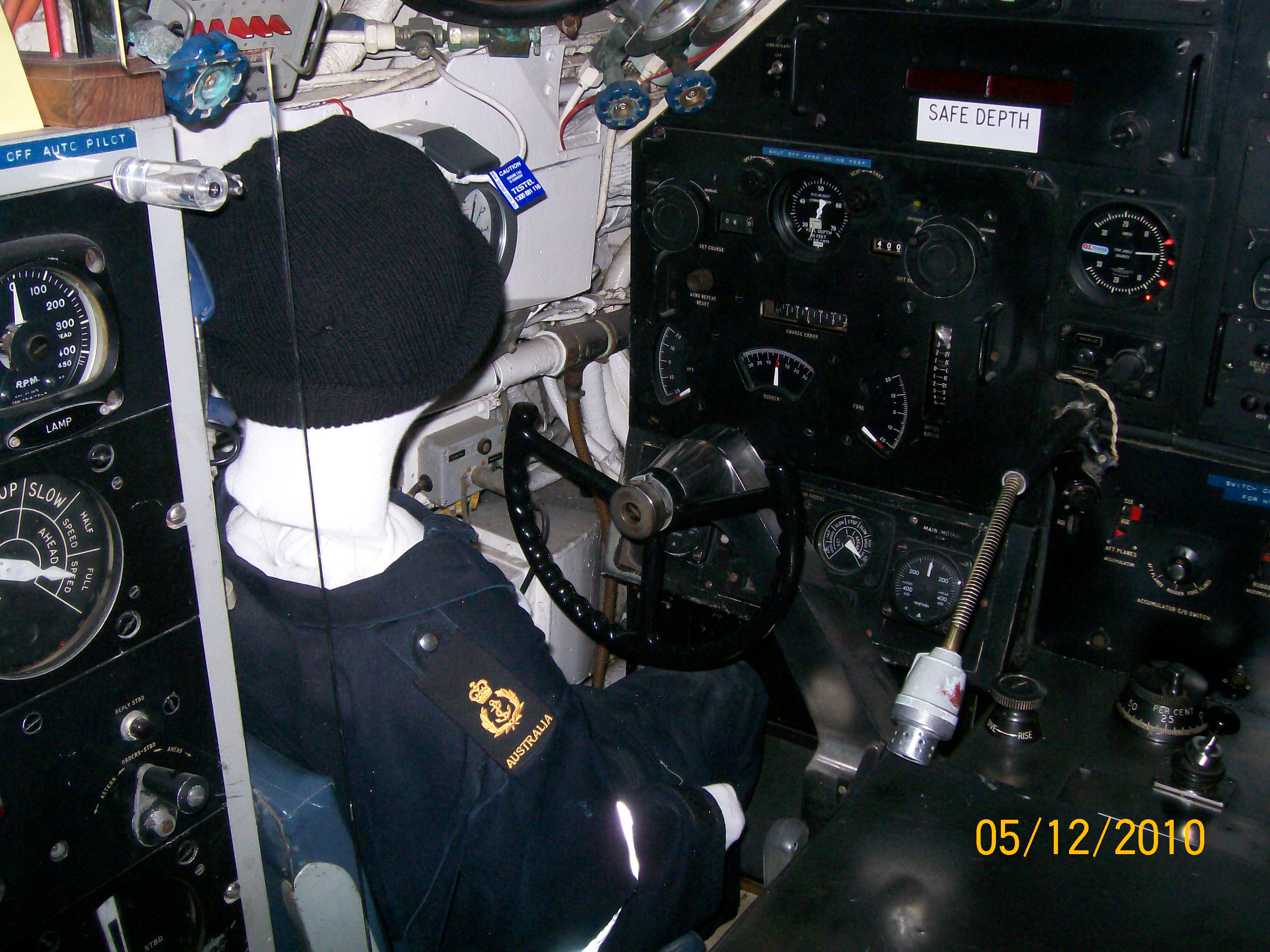 The Helm station on HMAS Ovens, an Oberon class decommisioned submarine.